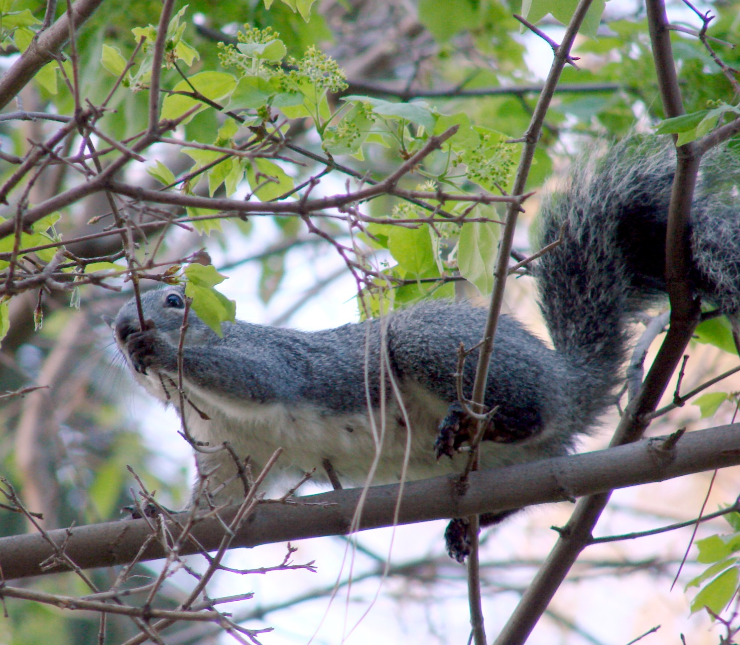 (1 in a multiple picture set) My dog, Bodie, was barking at this squirrel who was in a tree in Prospect Park, Redlands, CA. The critter wasn't very high above us, but he couldn't have cared less about us. He was busy having his breakfast, eating the buds from the tree.